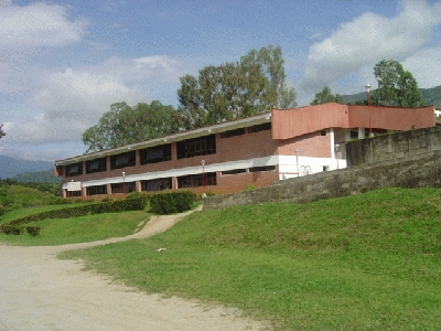 FLASA